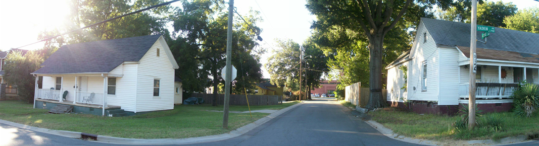 North Charlotte's Neighborhood in Highland Mill Village Houses